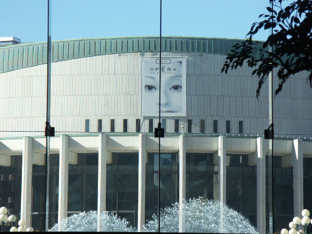 Place des Arts seen from the entrance of Complexe Desjardins. Two jets of water from a fontain (see Image:Roof of Place des Arts, fontain 2005-10-22.JPG). Photo by: User:Gene.arboit